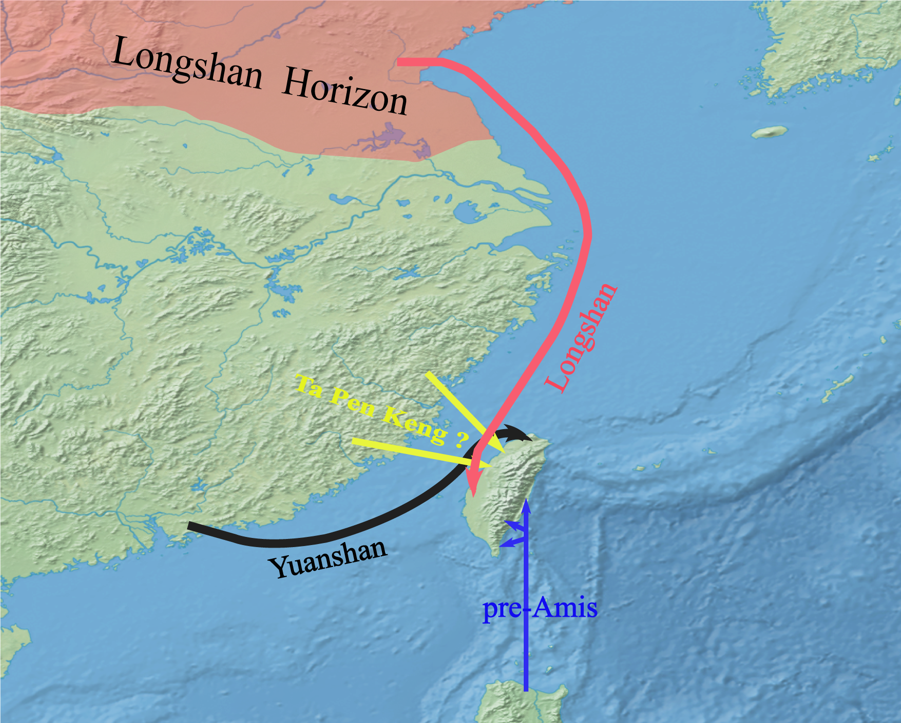 The migration of pre-Austronesian cultures to Taiwan